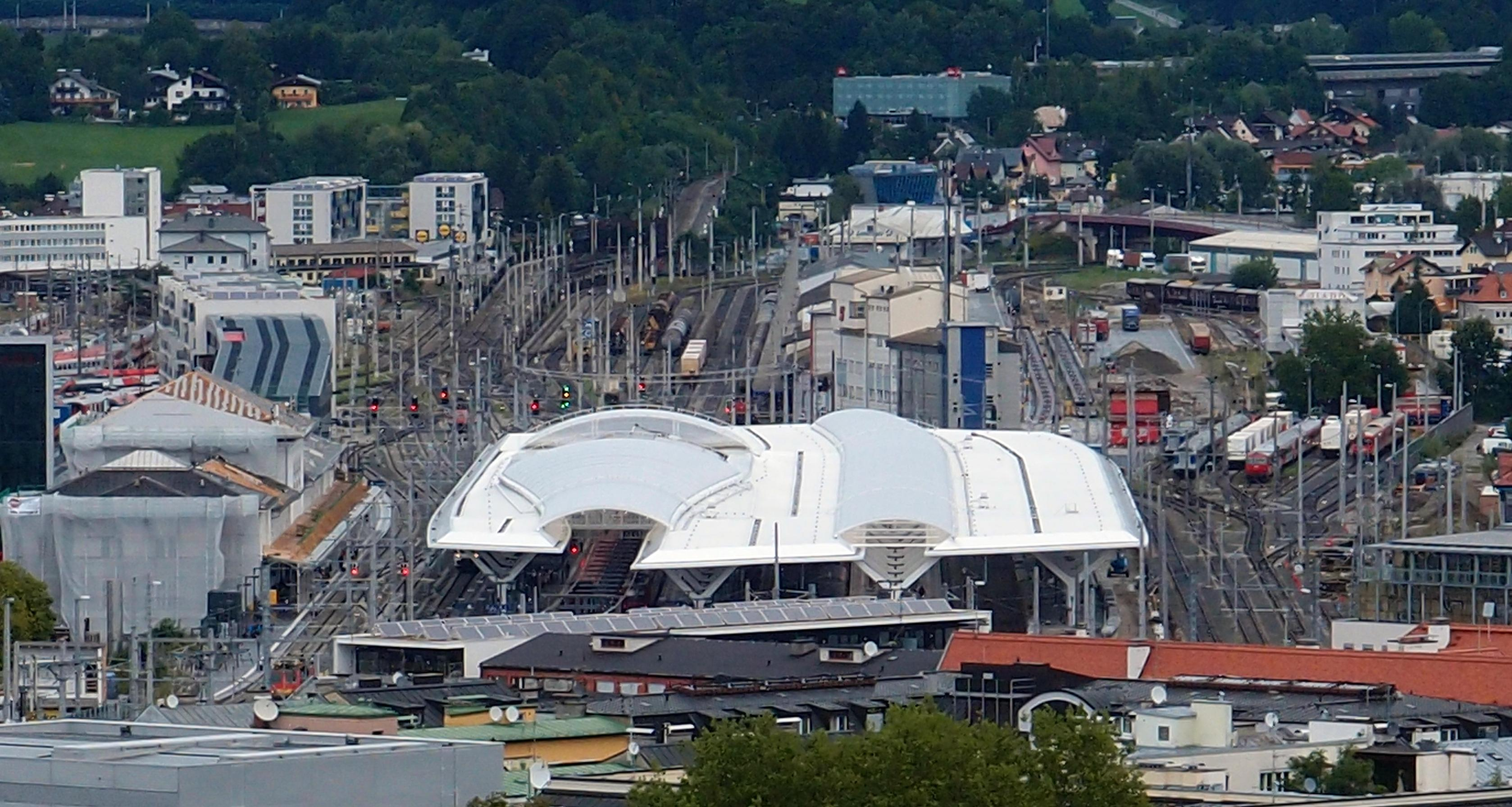 Central station of Salzburg seen from Mönchsberg, 2013-08-25.